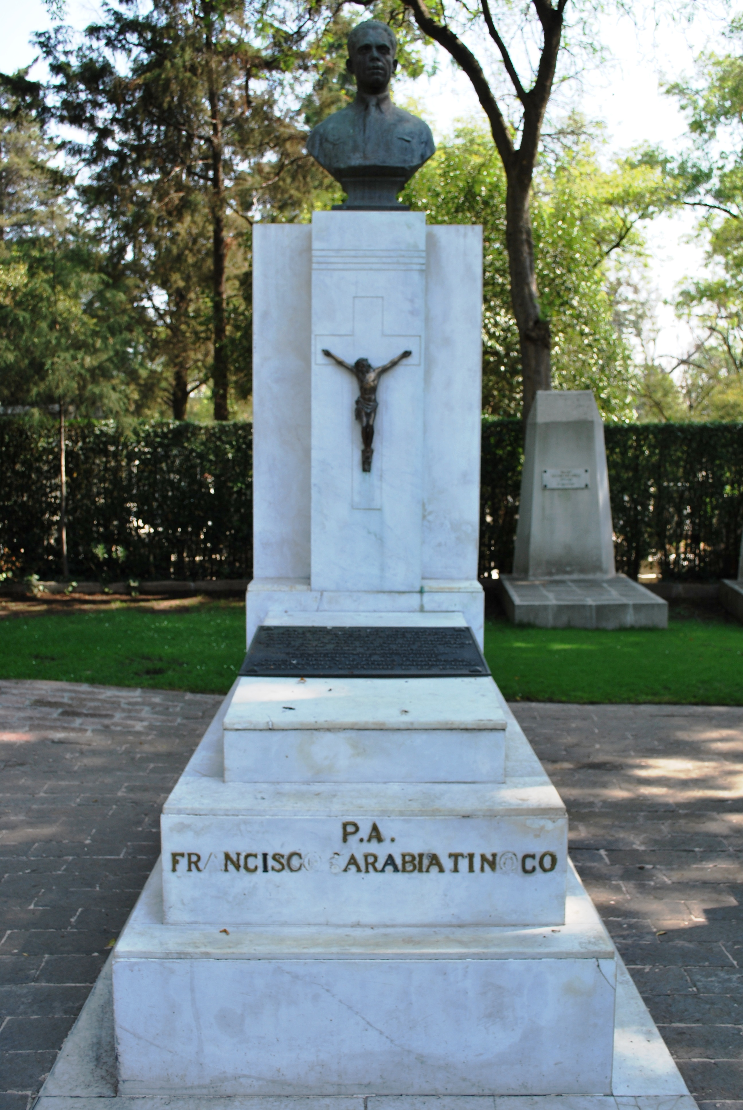 Tomb of Francisco Sarabia Tinoco in the Panteon Civil de Dolores cemetery in Mexico City